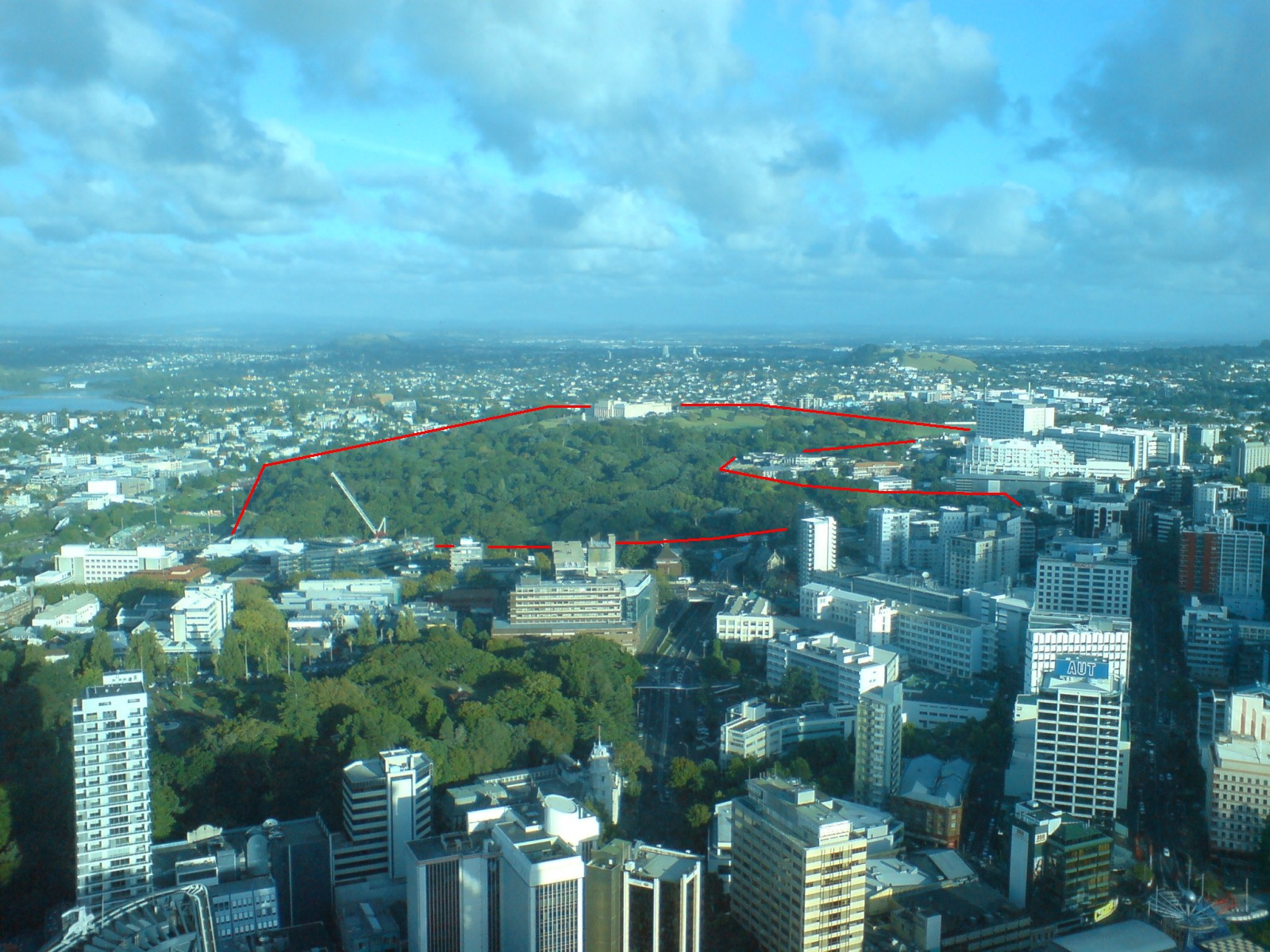 The Auckland Domain in Auckland City, New Zealand. The red lines show the approximate boundaries. Albert Park in the foreground.